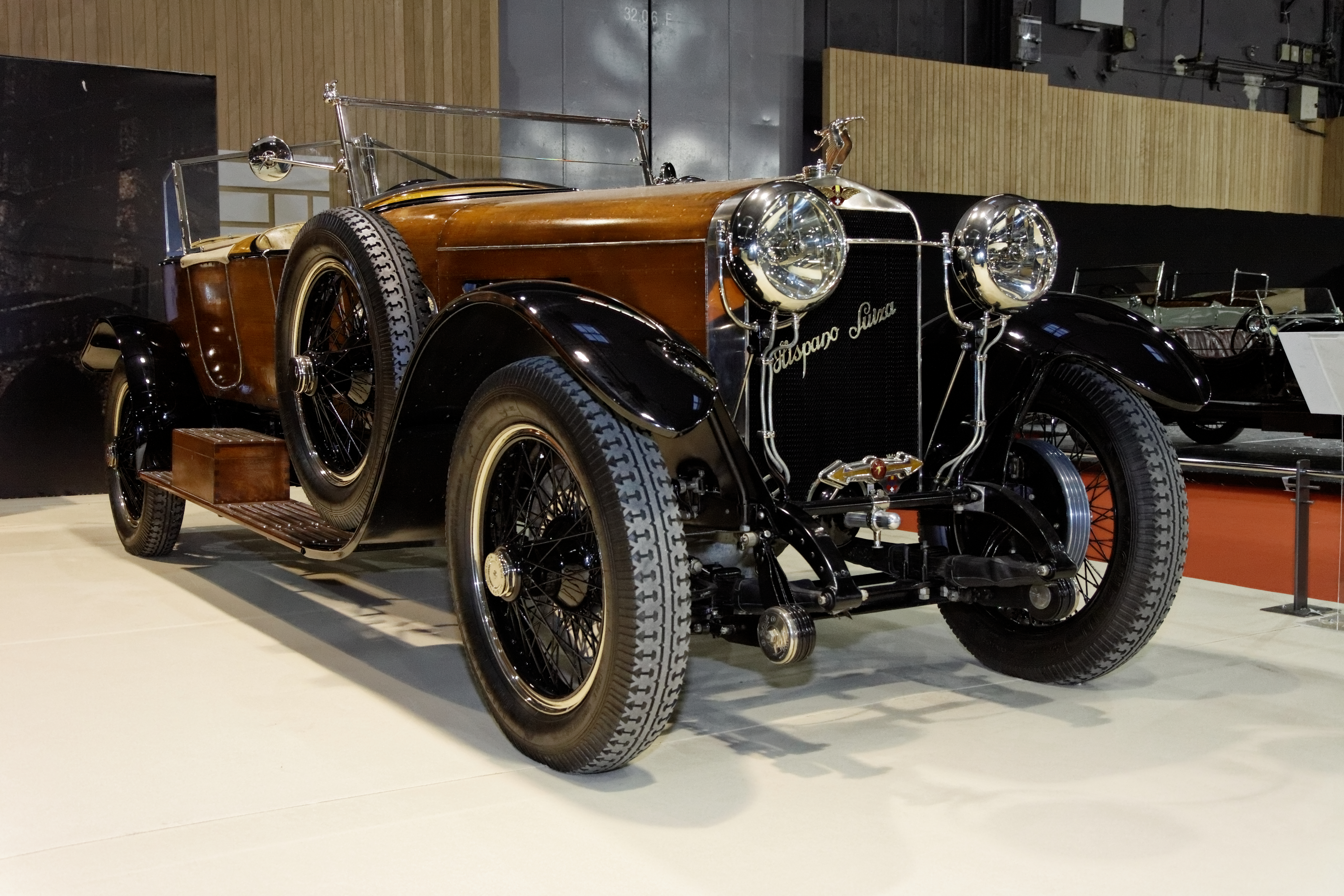 Hispano-Suiza type H6 B